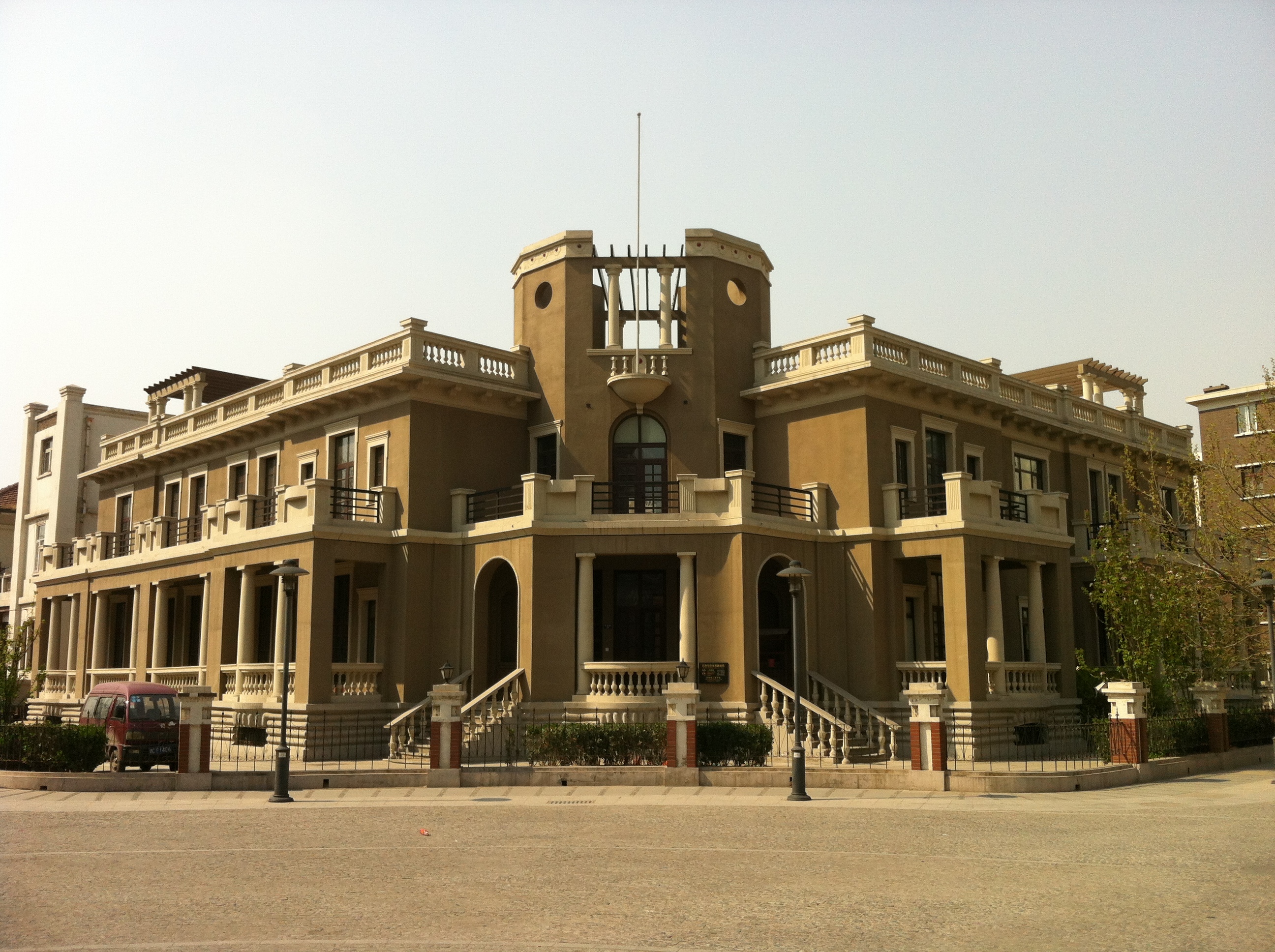 Zhiyou Dao No. 24